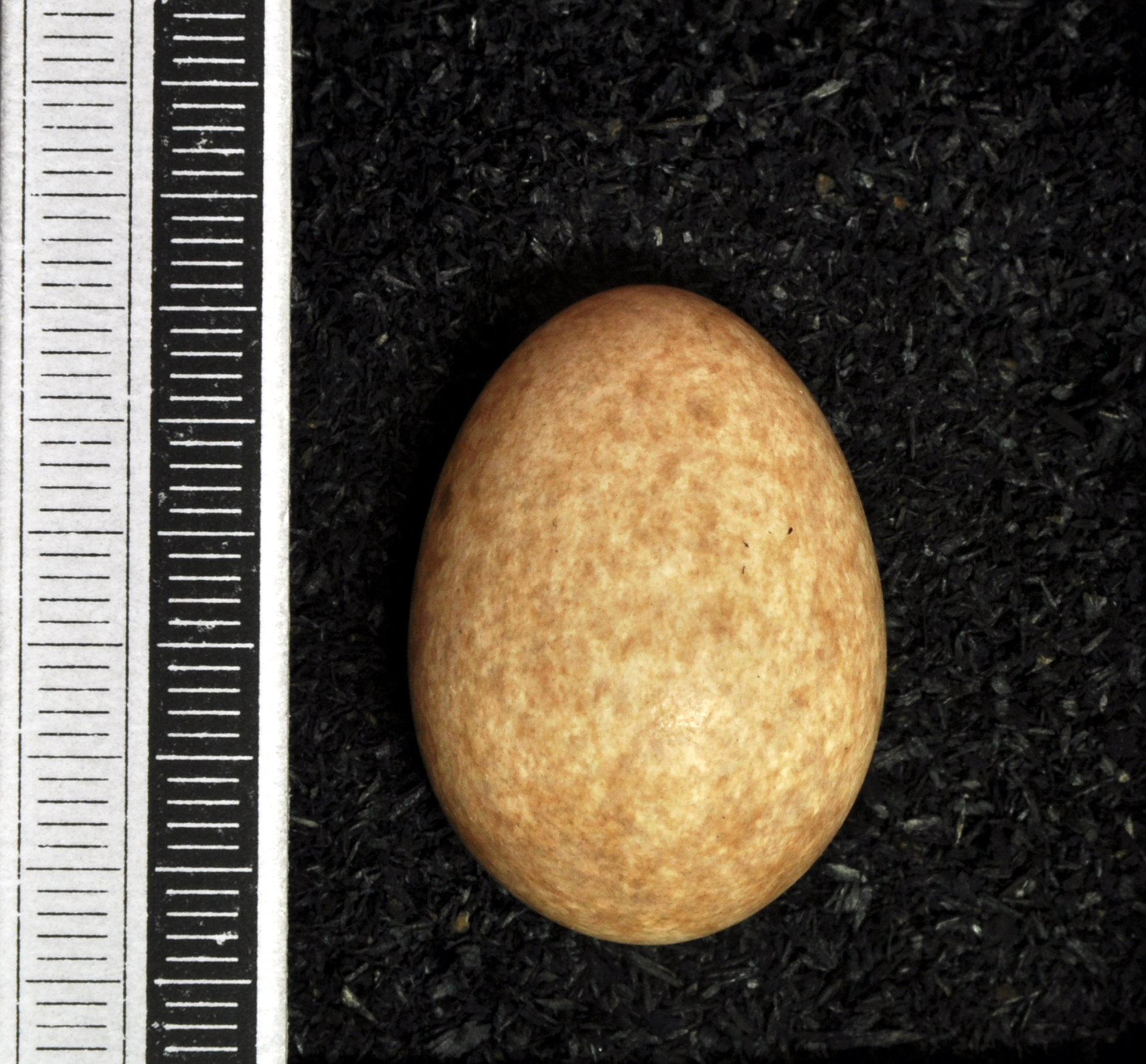 Common green magpie Cissa chinensis , egg, Coll. Museum Wiesbaden